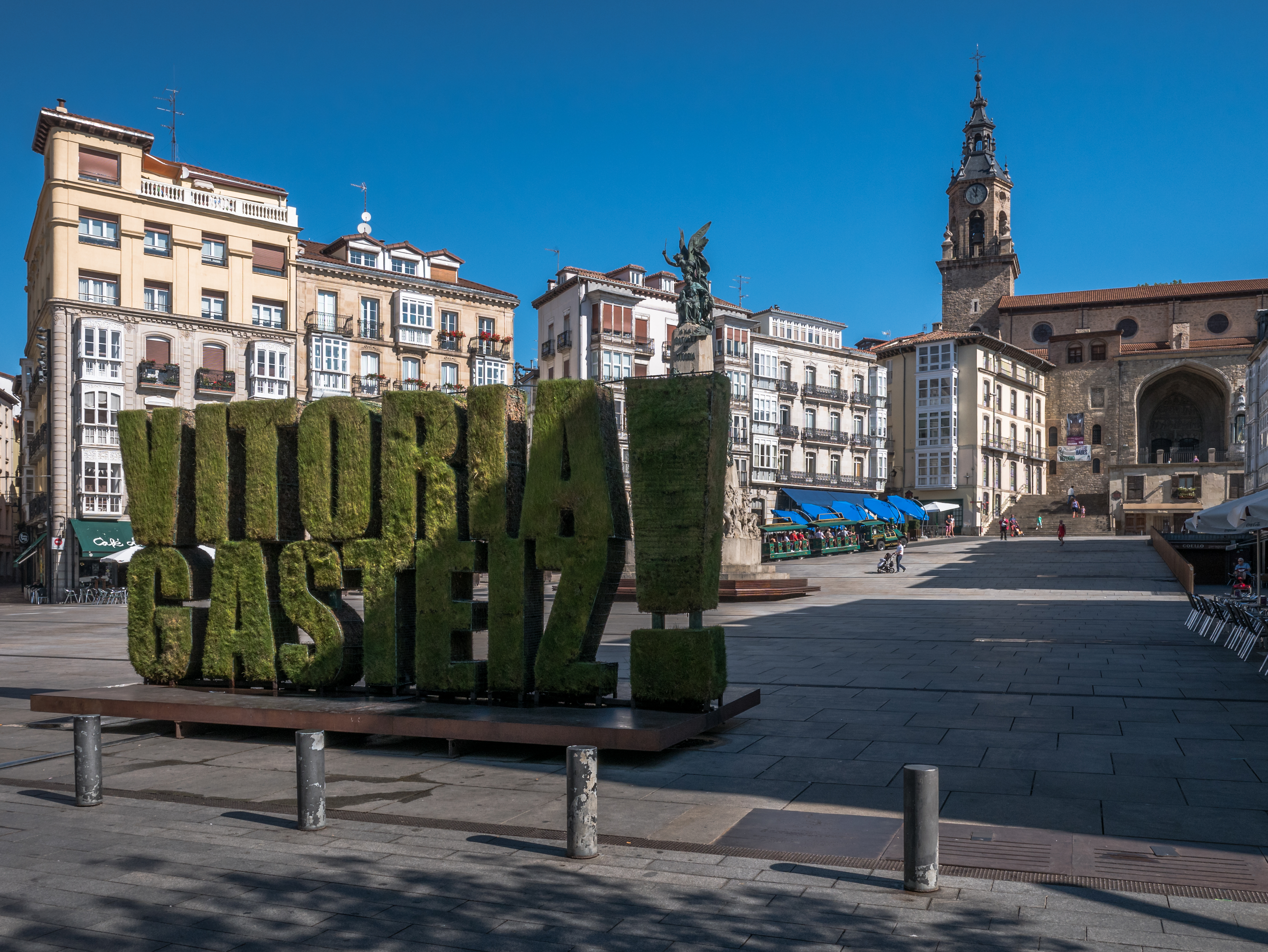 Green sculpture Vitoria-Gasteiz! on the Virgen Blanca Square. Vitoria-Gasteiz, Basque Country, Spain